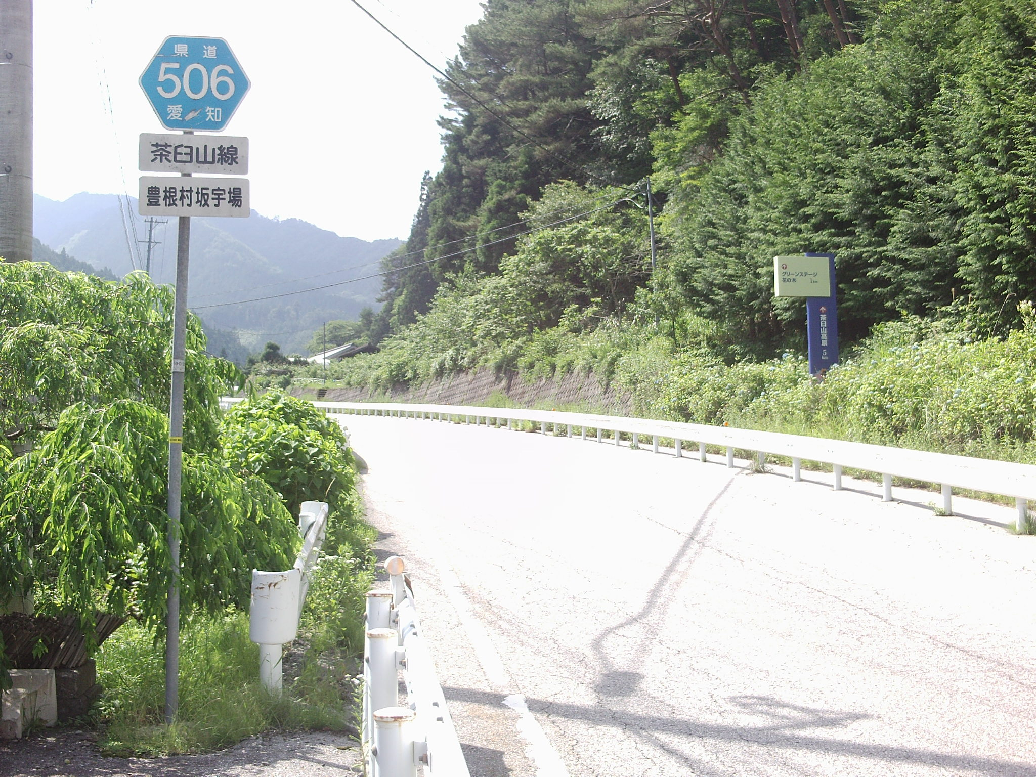 Aichi prefectural road No.506 in Sakauba, Toyone-mura, Kitashitara-gun, Aichi.